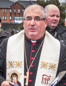 The Catholic Archbishop of Glasgow, Philip Tartaglia gives the blessing on the commemoration of the founding fathers of Celtic Football Club on the St Peter's Cemetery, Dalbeth in Glasgow 2 November 2013